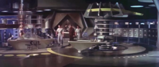 Scene from Forbidden Planet - trailer (cropped screenshot)